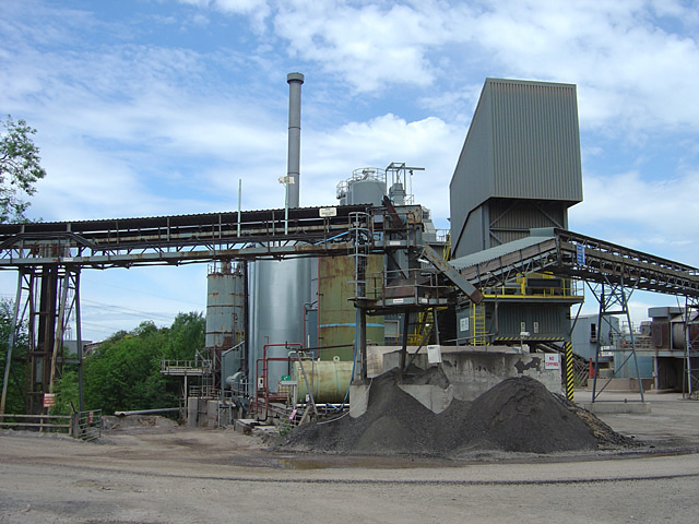 Mountsorrel Quarry This quarry produces a distinctive red granite. The site is bisected by a public footpath from which this picture is taken. The footpath now follows a slightly different route to the one shown on the map.